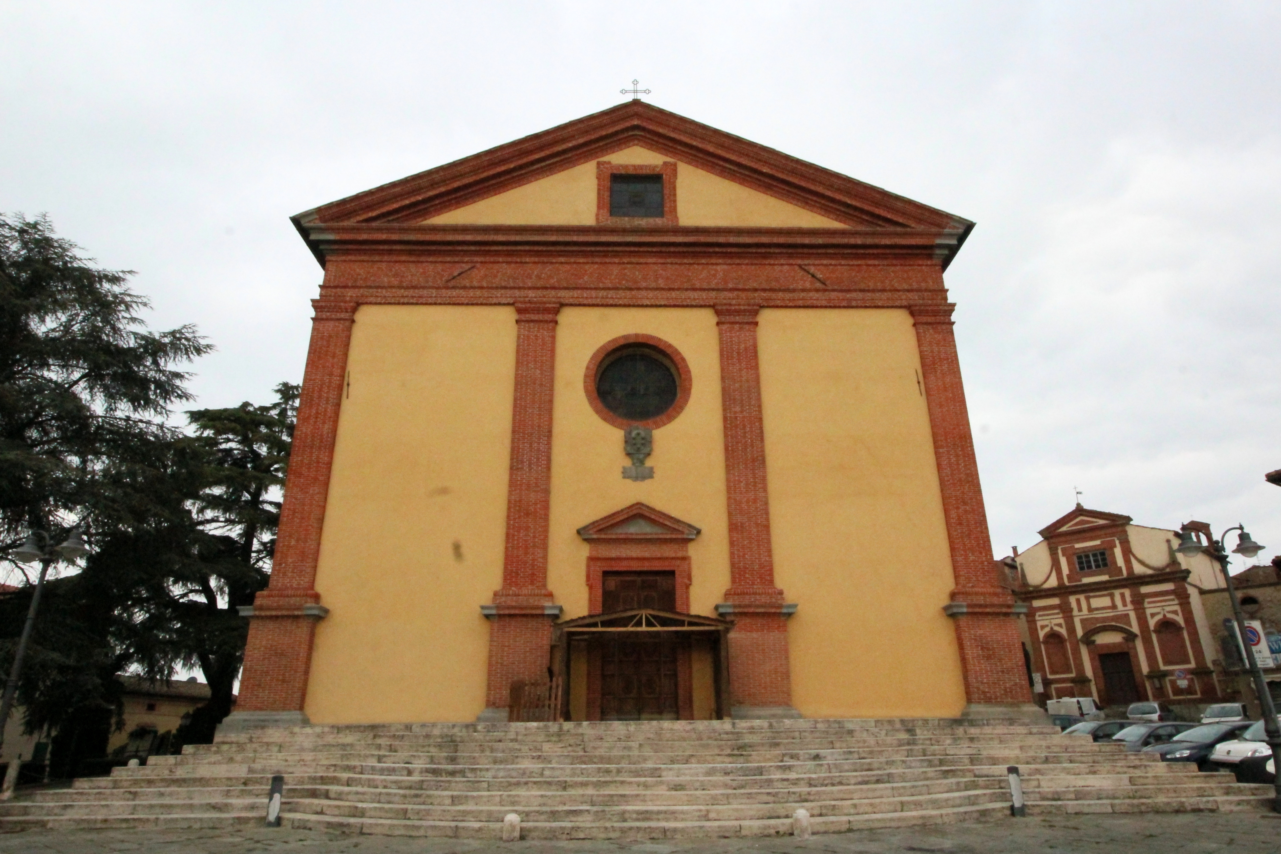 Collegiata di San Martino, Church in Sinalunga, Province of Siena, Tuscany, Italy